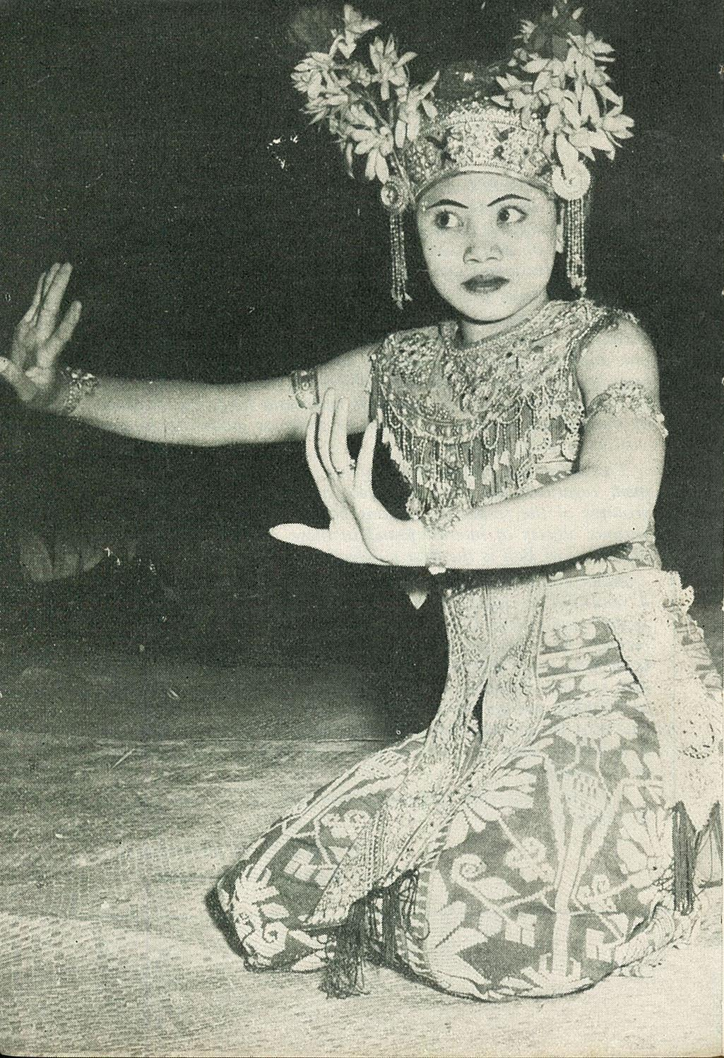 Balinese dancer